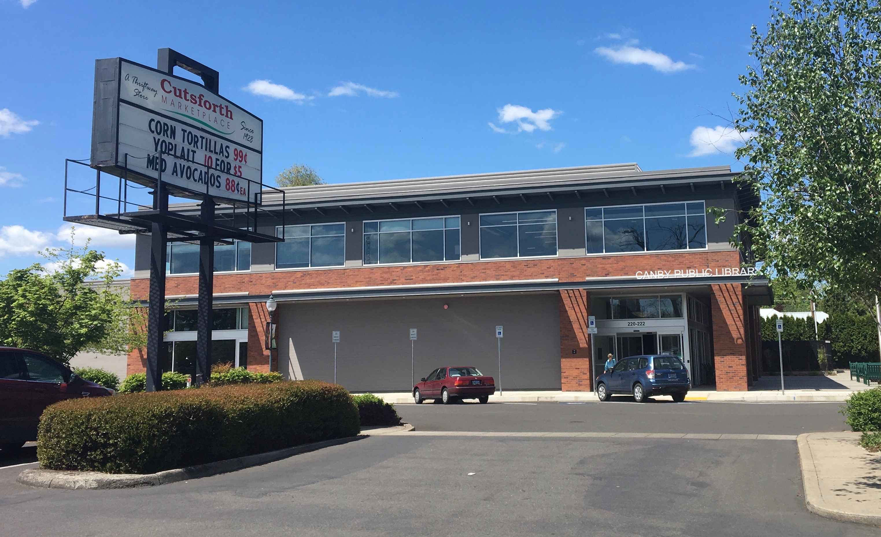 Canby, OR